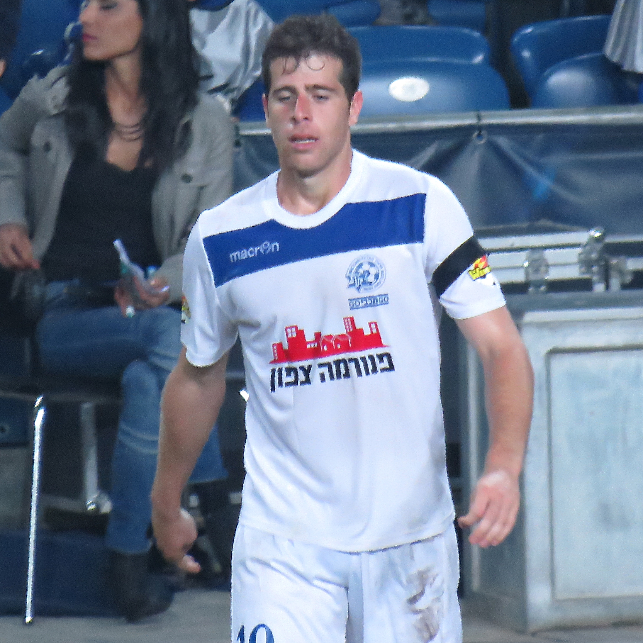 Maccabi Petah Tikva F.C. vs. Maccabi Haifa F.C., 31 October, 2015